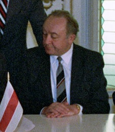 “Signing the Agreement to eliminate the USSR and establish the Commonwealth of Independent States”. Ukrainian President Leonid Kravchuk (second from left seated), Chairman of the Supreme Council of the Republic of Belarus Stanislav Shushkevich (third from left seated) and Russian President Boris Yeltsin (second from right seated) during the signing ceremony to eliminate the USSR and establish the Commonwealth of Independent States. Viskuly Government House in the Belorusian National Park "Belovezhskaya Forest".